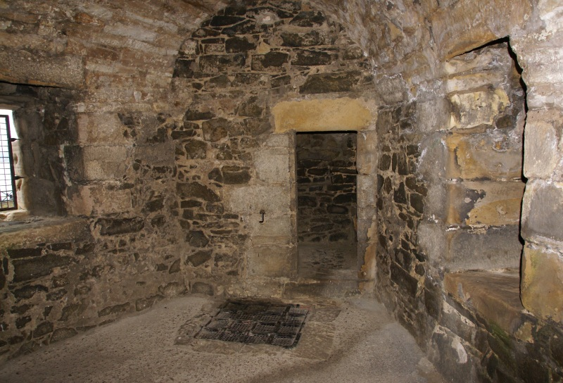 Blackness Castle, Falkirk, Scotland. Inside de north tower.